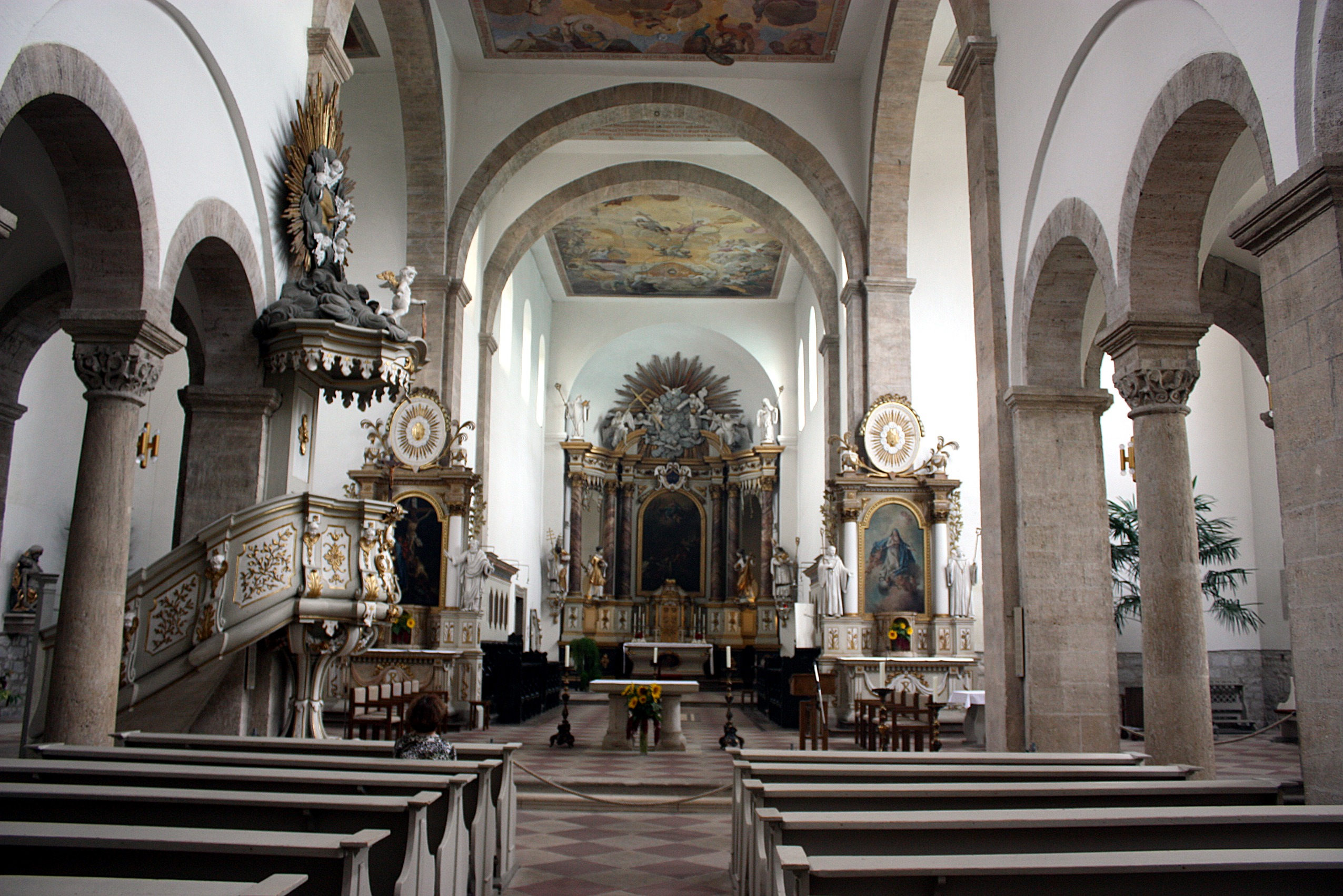 Huysburg (Huy), the church, inner view